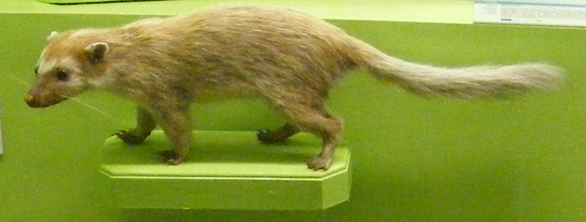 A Burmese ferret-badger in the Natural History Museum of Genoa